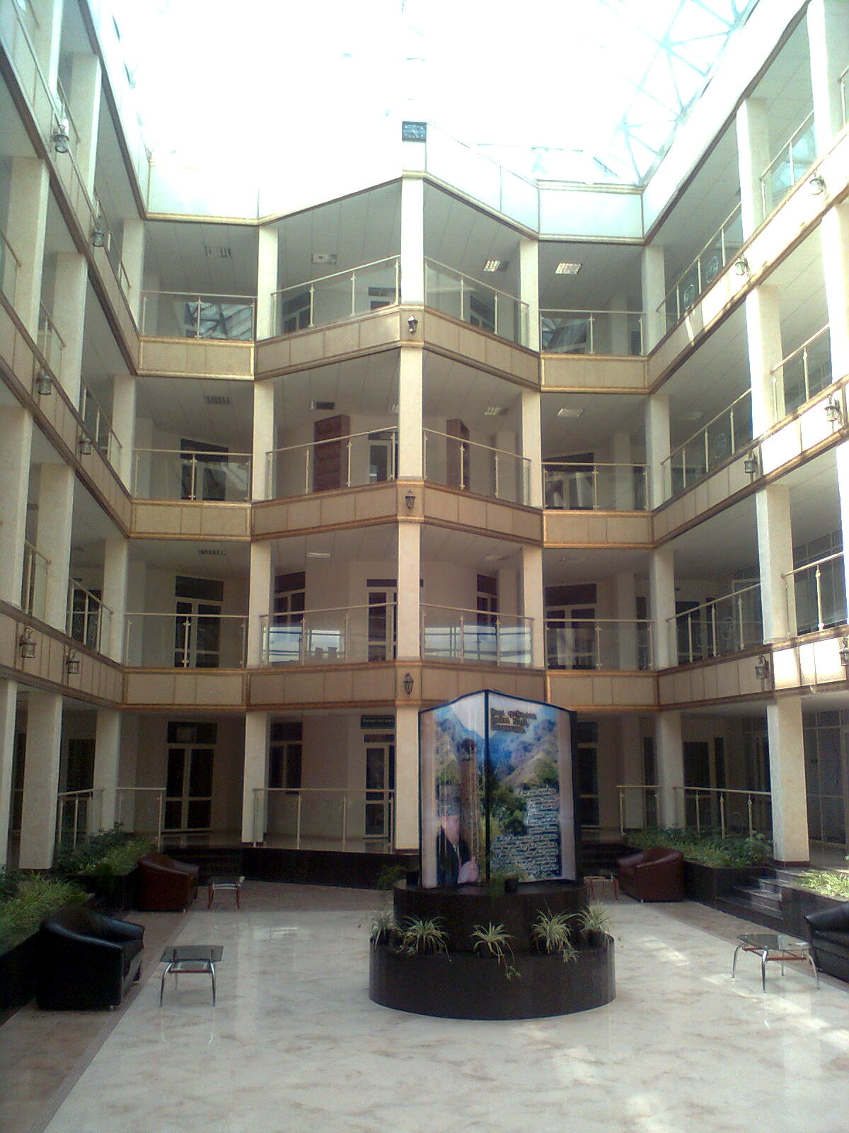 National Library of the Chechen Republic. Conservatory